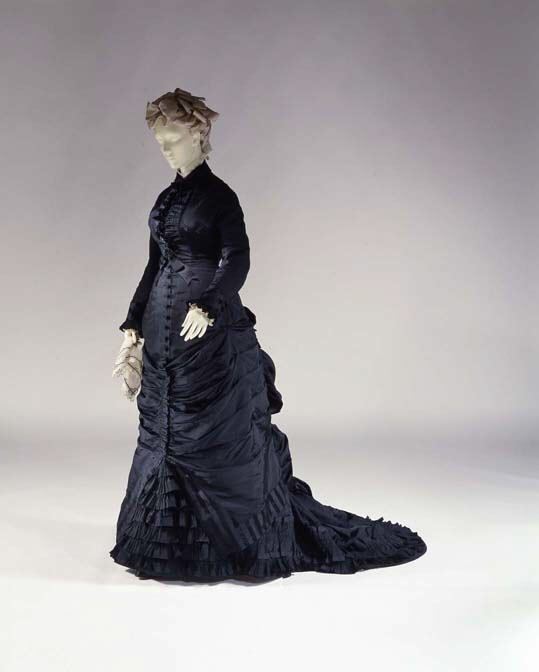 American; Afternoon dress